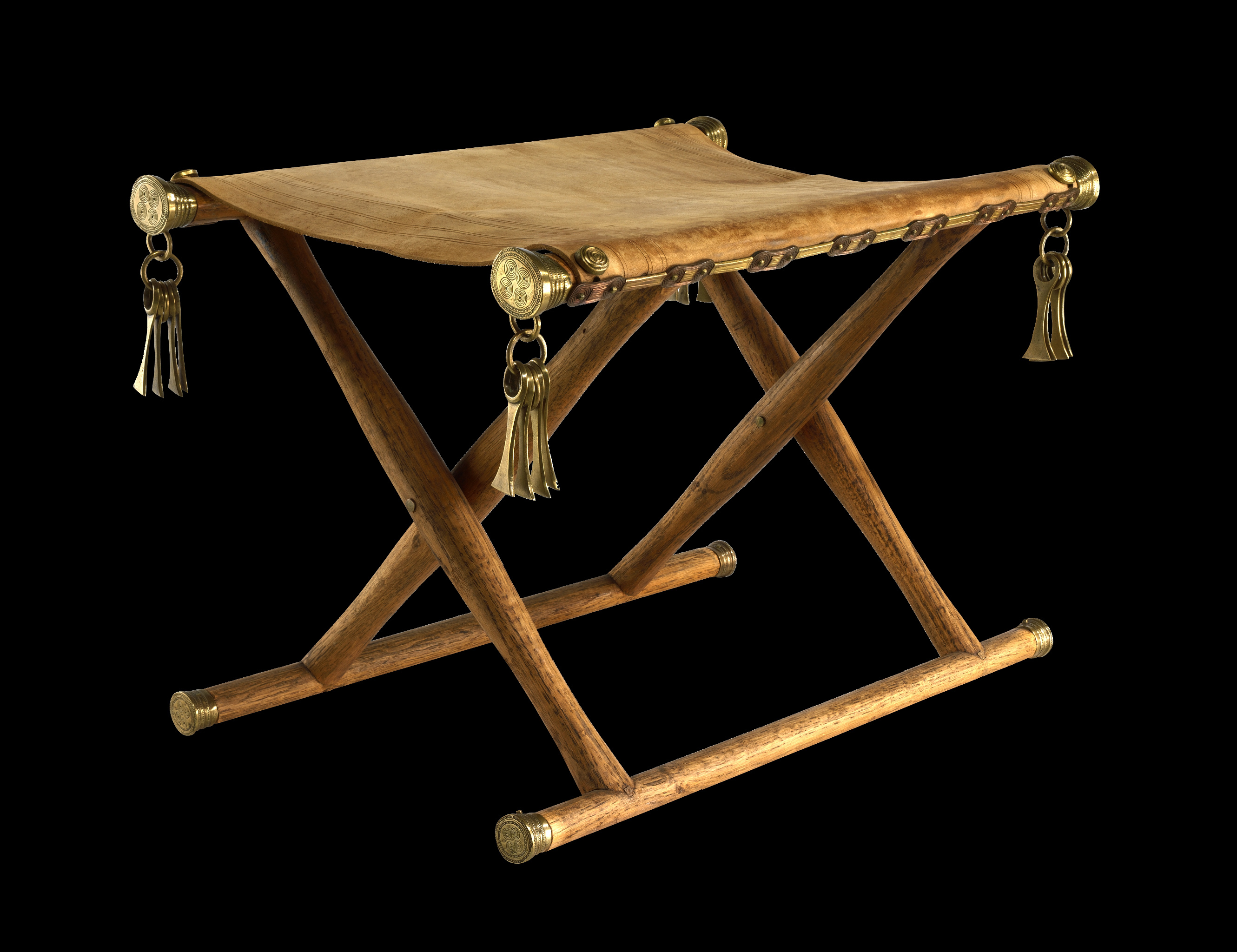 Reconstruction of Daensen folding chair, dated to the Nordic Bronze Age, circa 1400 BC date QS:P,-1400-00-00T00:00:00Z/9,P1480,Q5727902